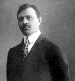 Üzeyir Hacıbəyov (died 1948 - Azerbaijan)